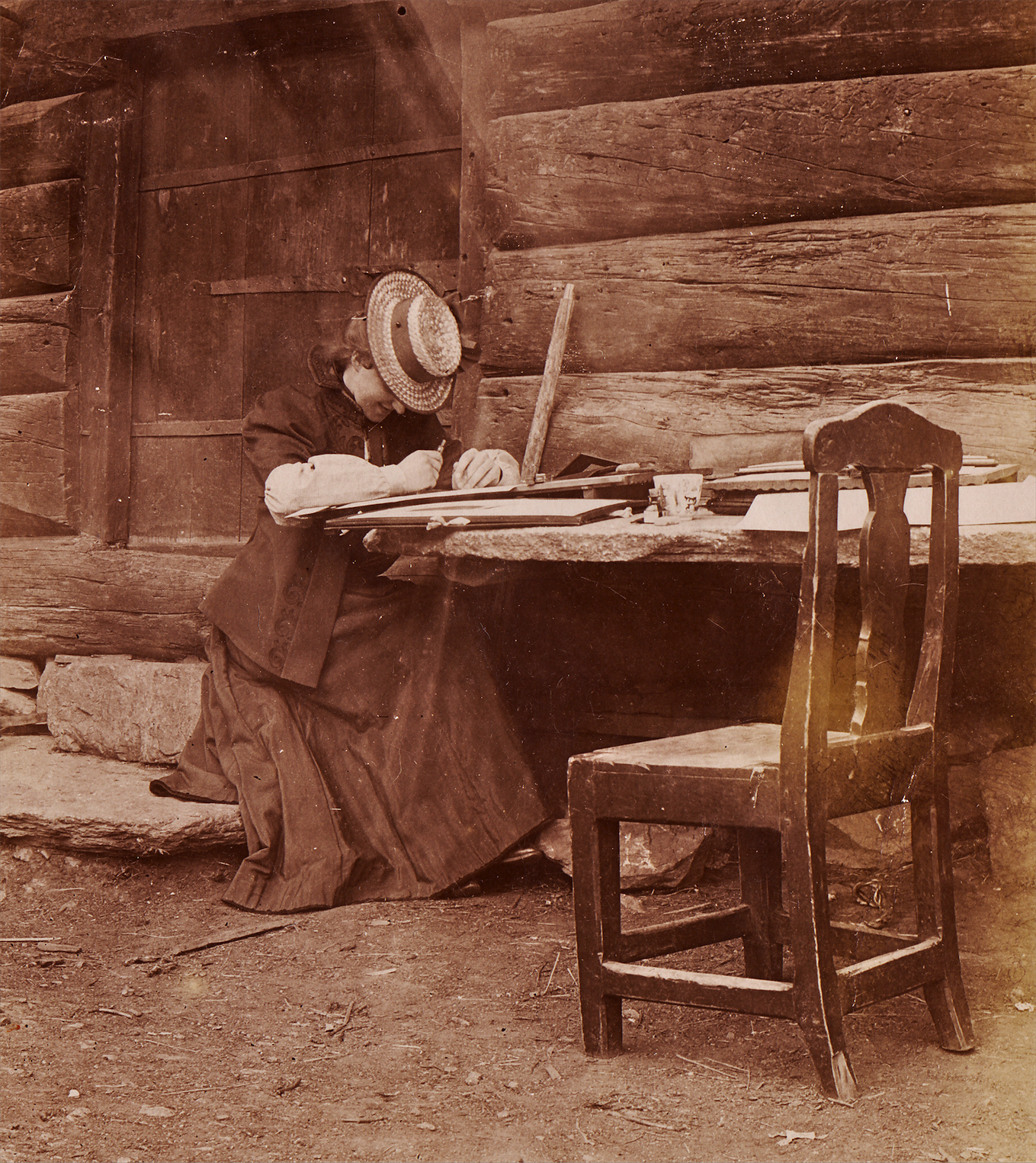 A young female architecture student, registering old log buildings on the farm Heringstad (wrongly registered as Bjølstad when the photo was uploaded) in Heidal, Norway. Her professor on this excursion was also the photographer: Herman Major Schirmer